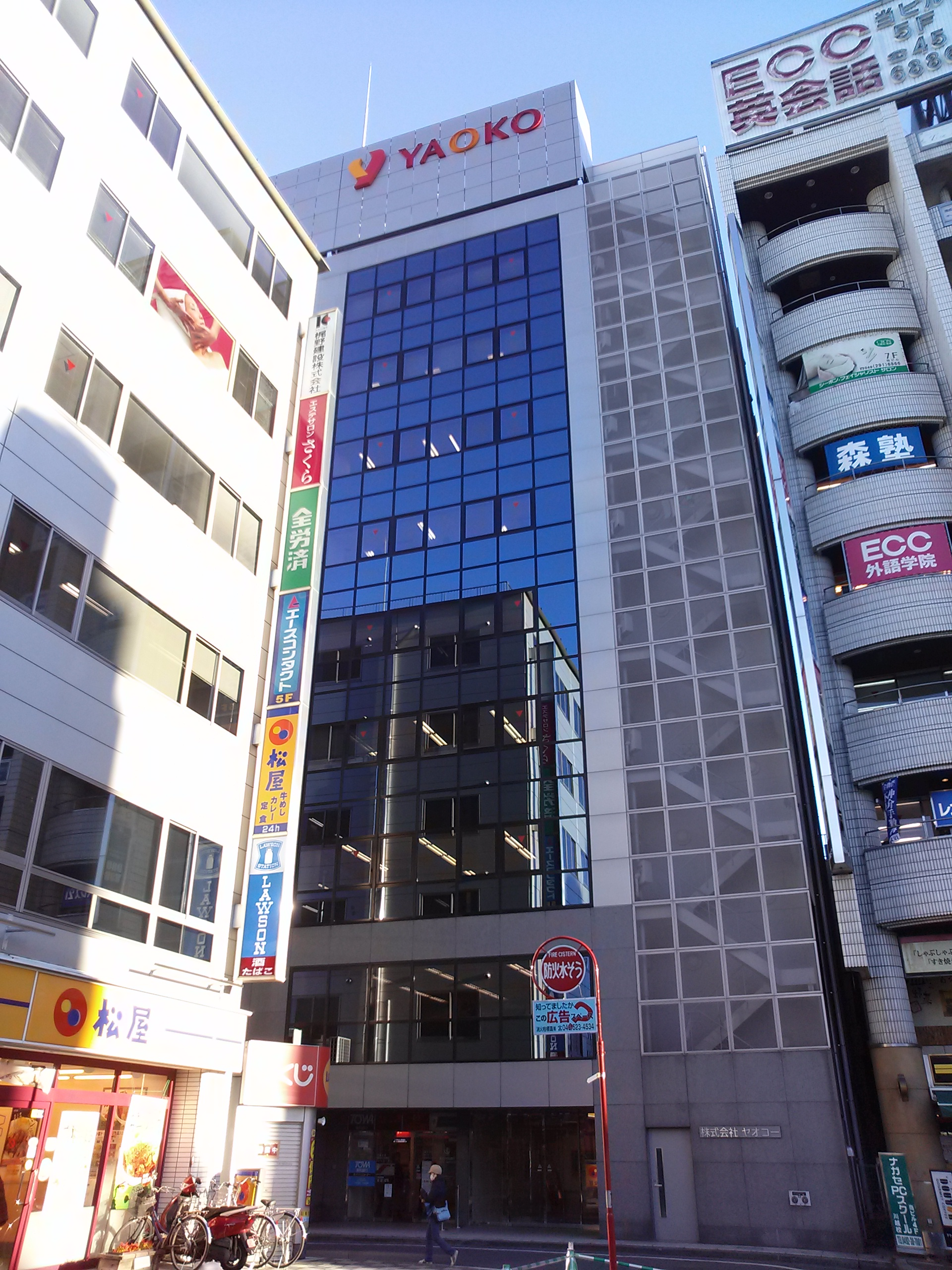 Yaoko Headquarters in Kawagoe, Saitama, Japan